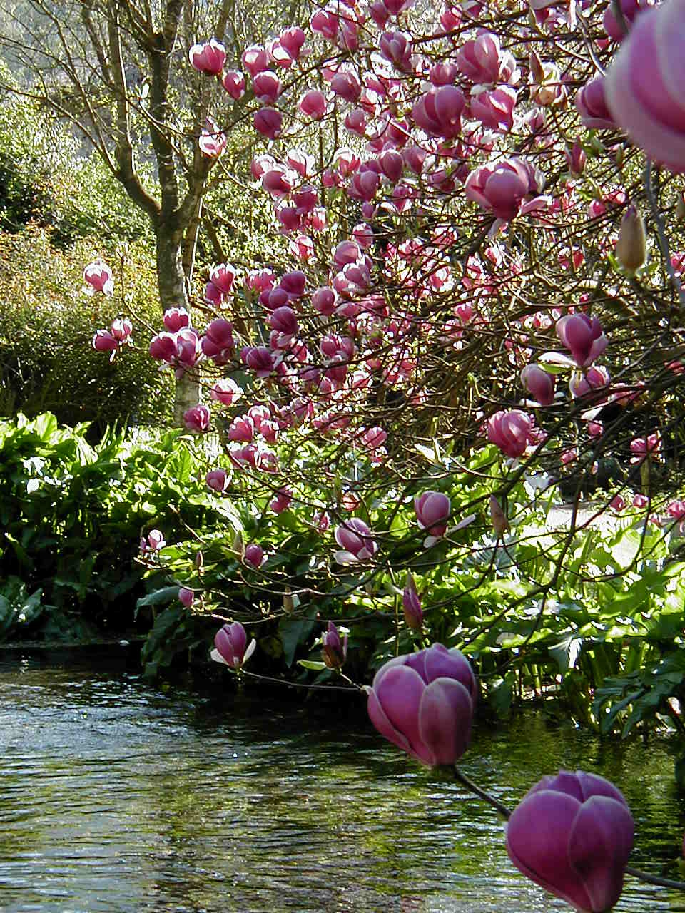 Blossoming Magnolia x soulangeana tree in Giardino de Ninfa, Italy